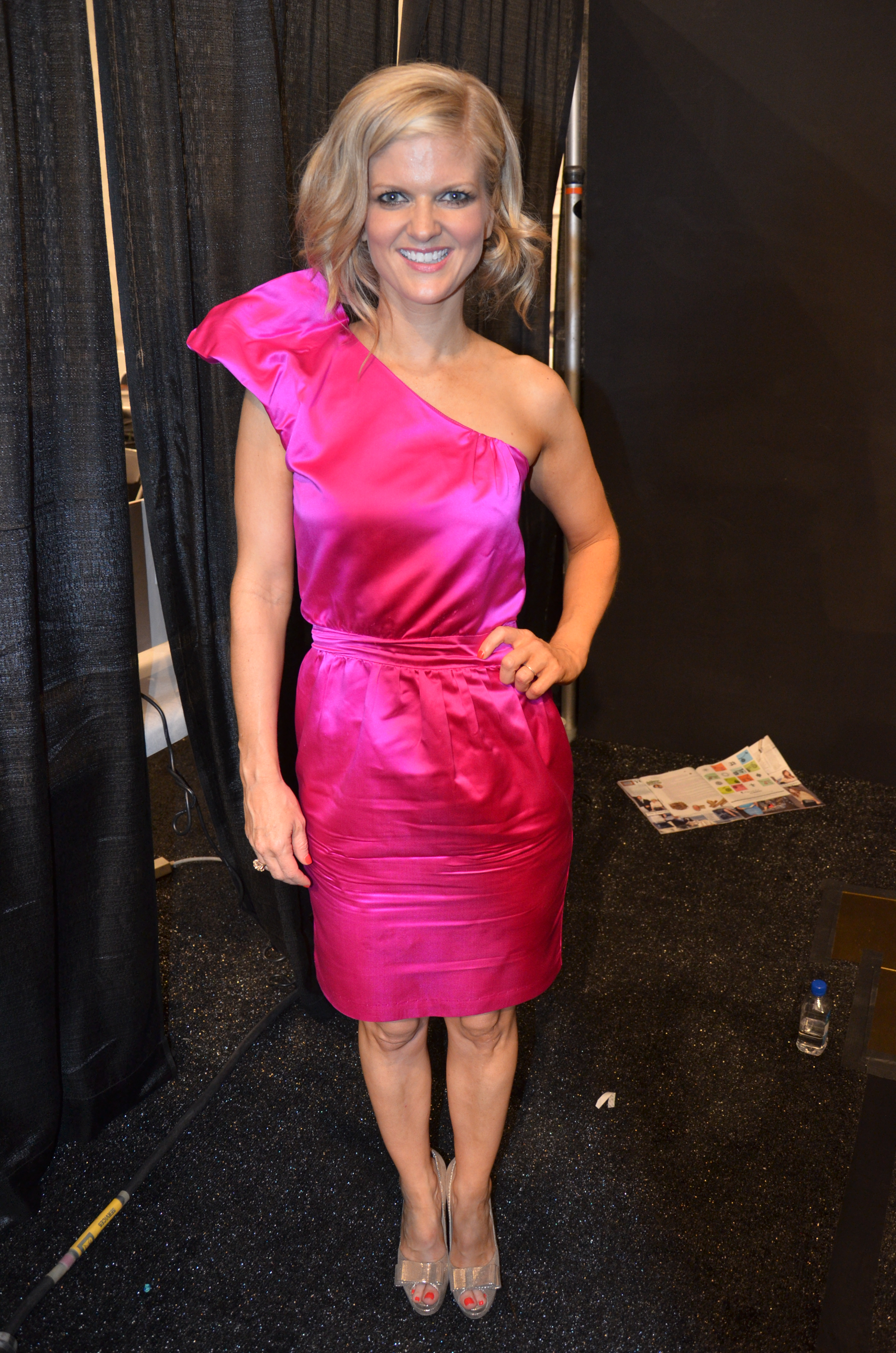 Arden Myrin backstage after the Cynthia Rowley show. Very nice woman.